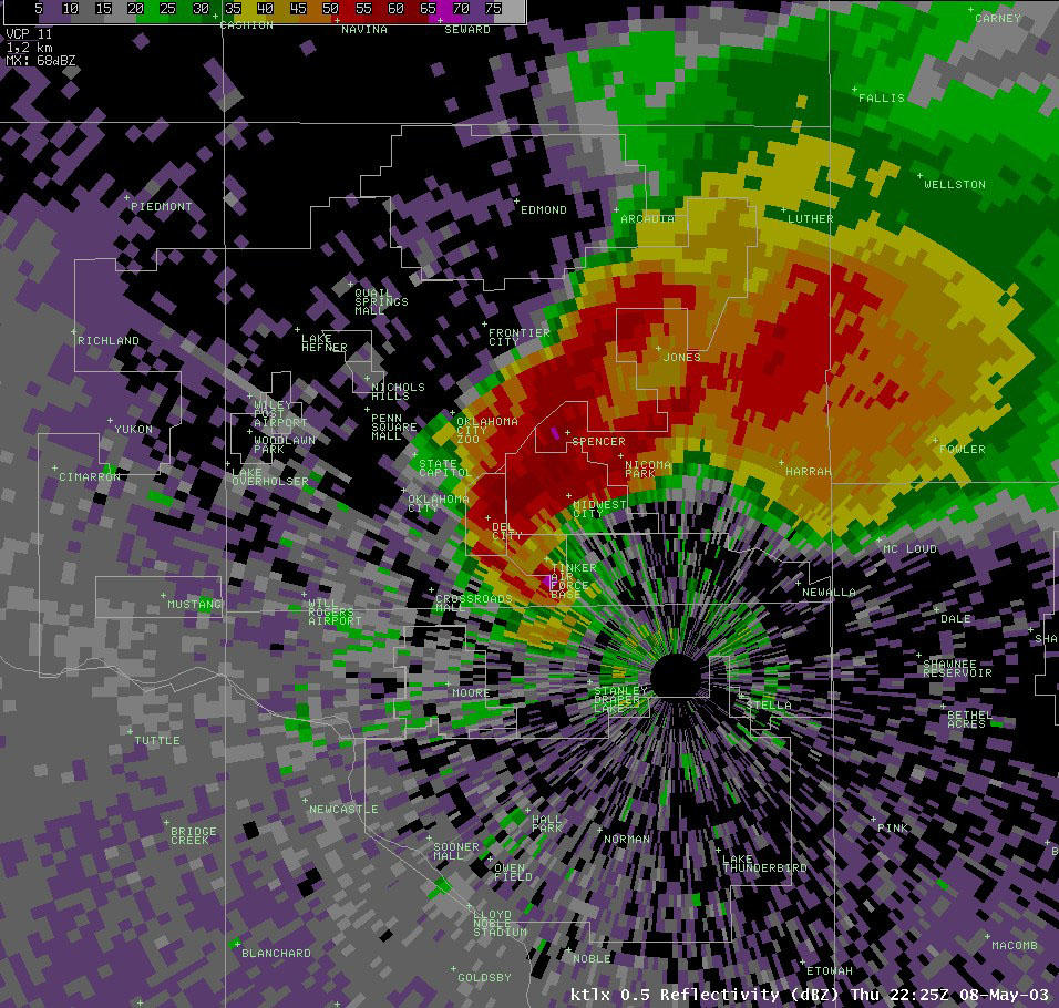 Radar shot of the Moore/Oklahoma City supercell at around 5:25 PM CDT on May 8, 2003 as the time it was at its peak intensity in southeastern Oklahoma City. Courtesy of NWS Norman, Oklahoma.